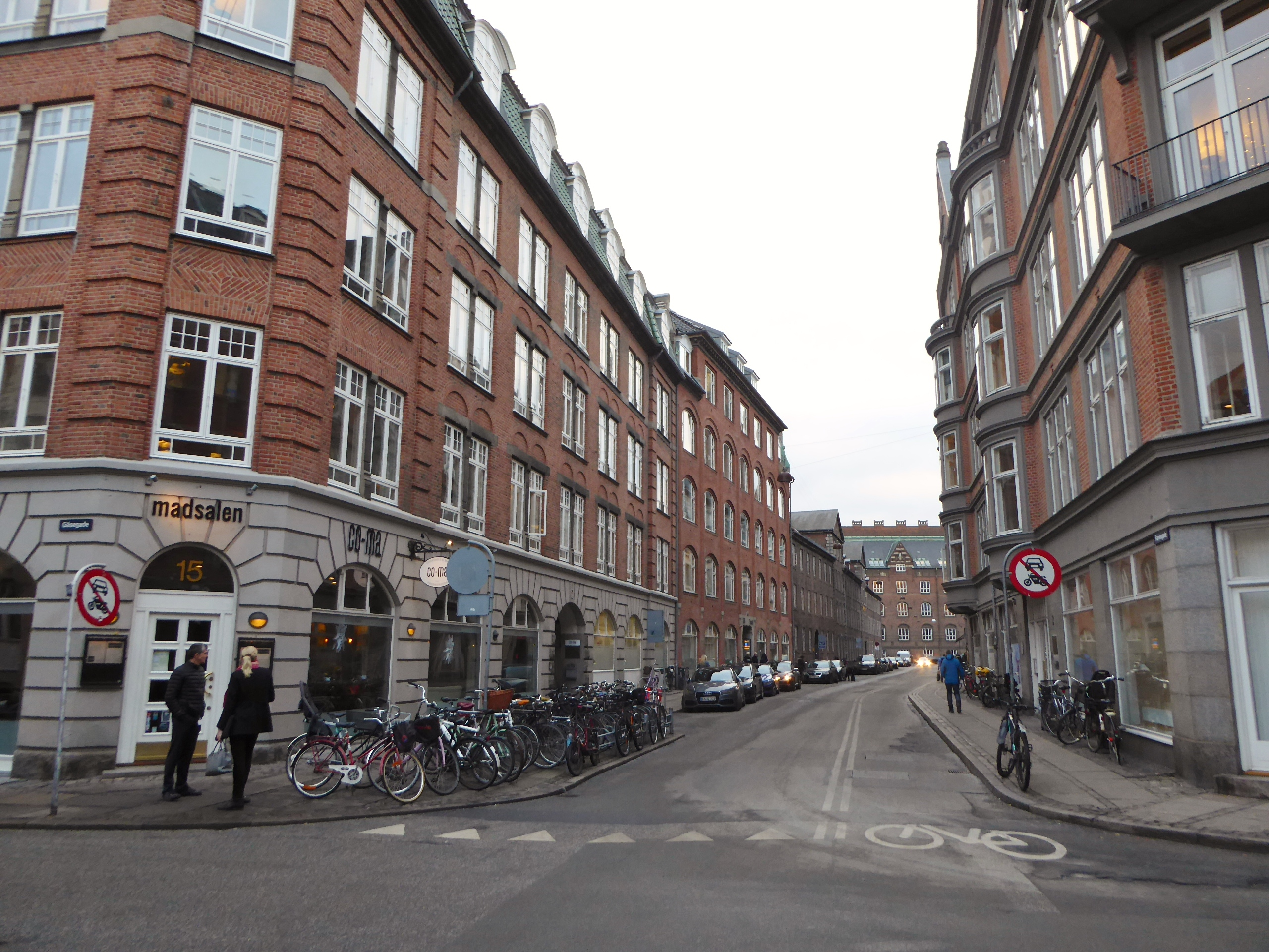 The street Farvergade in Indre By in Copenhagen.